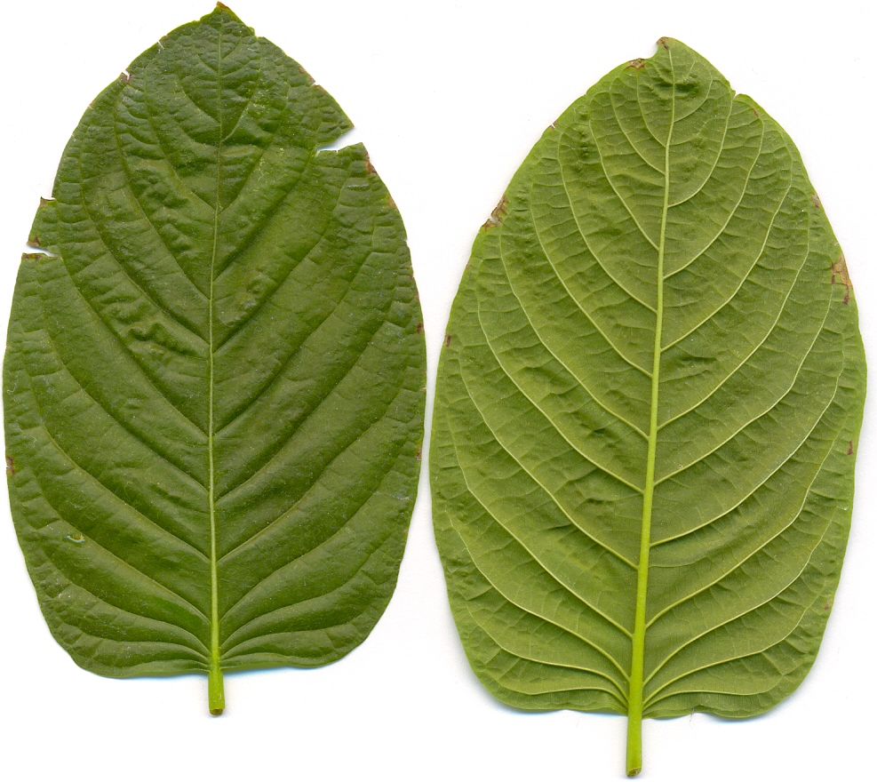 Kratom leafes, front and back side. Mitragyna speciosa .